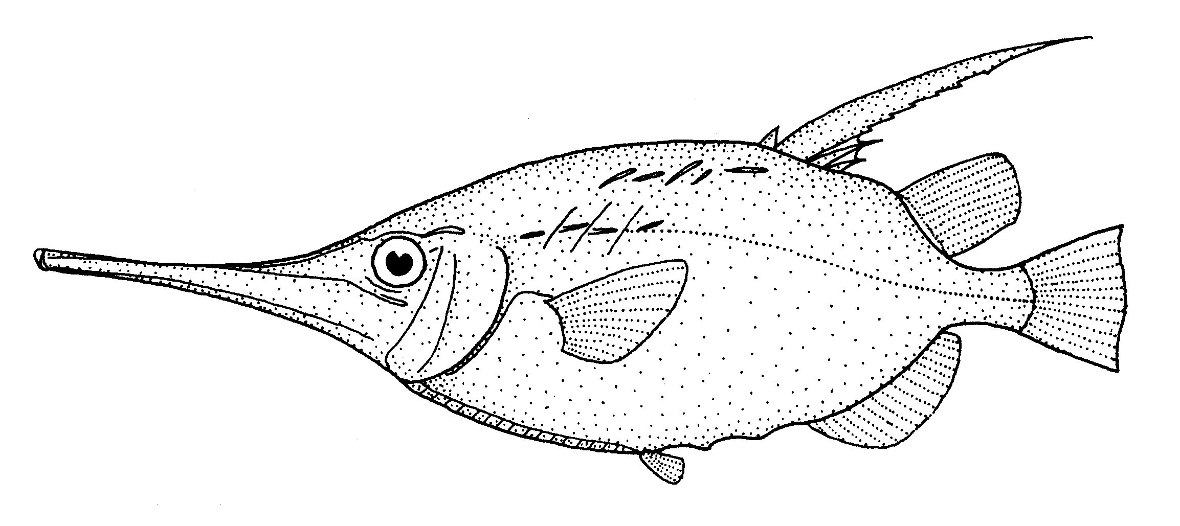 Macroramphosus scolopax (Longspine snipefish)